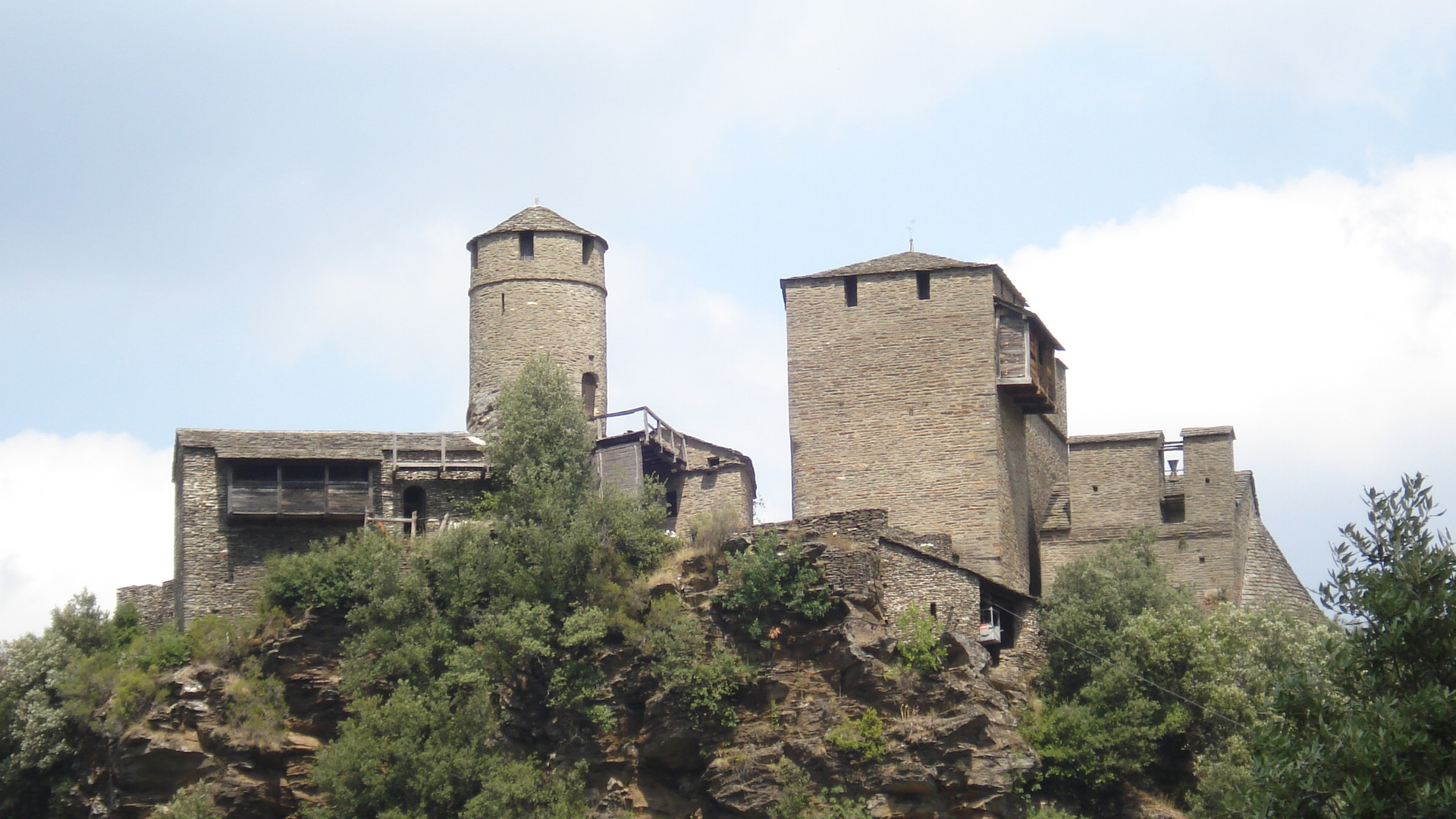 Calberte's castele , Saint-Germain-de-Calberte in Lozère, view from the access's lane (East)